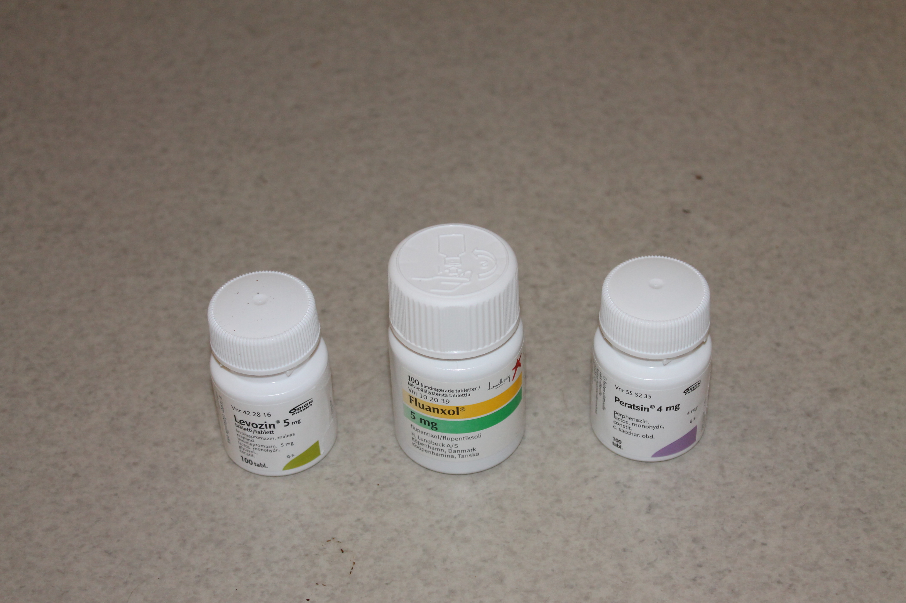 Typical antipsyhotics: Levomepromazin 5mg, flupentixol 5mg and perfenazin 4mg.